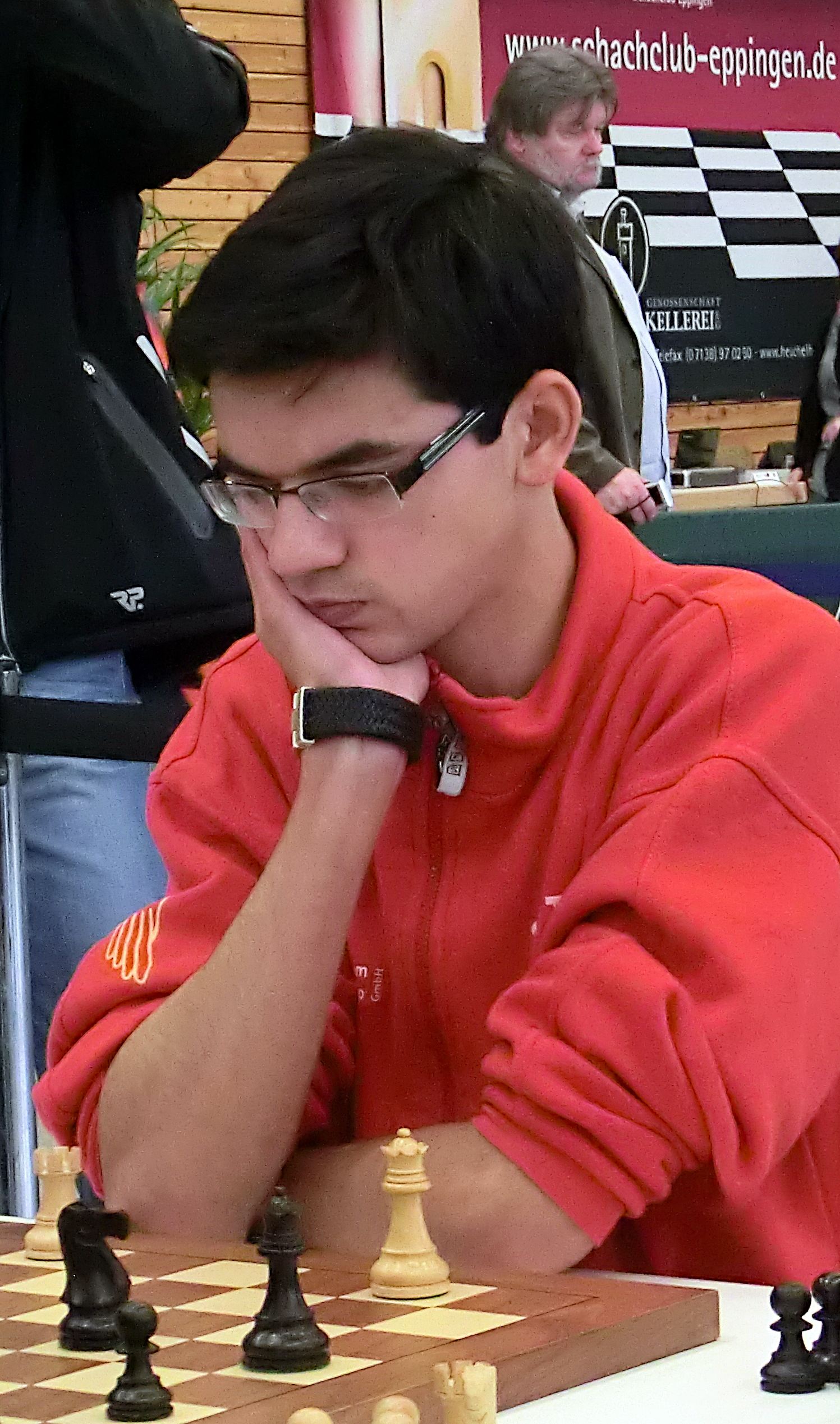 Anish Giri, chess grandmaster from the Netherlands